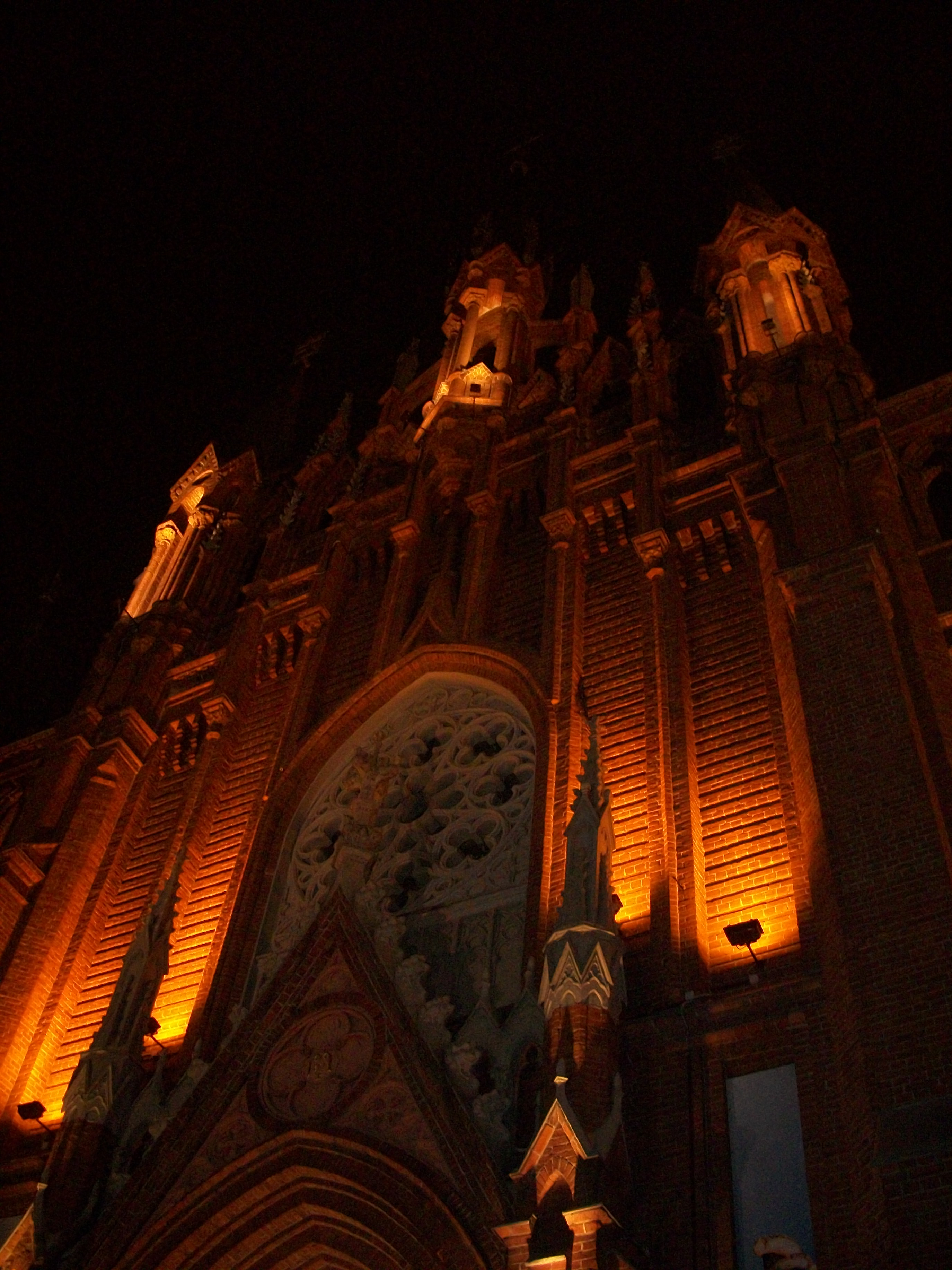 Polish Church in Moscow